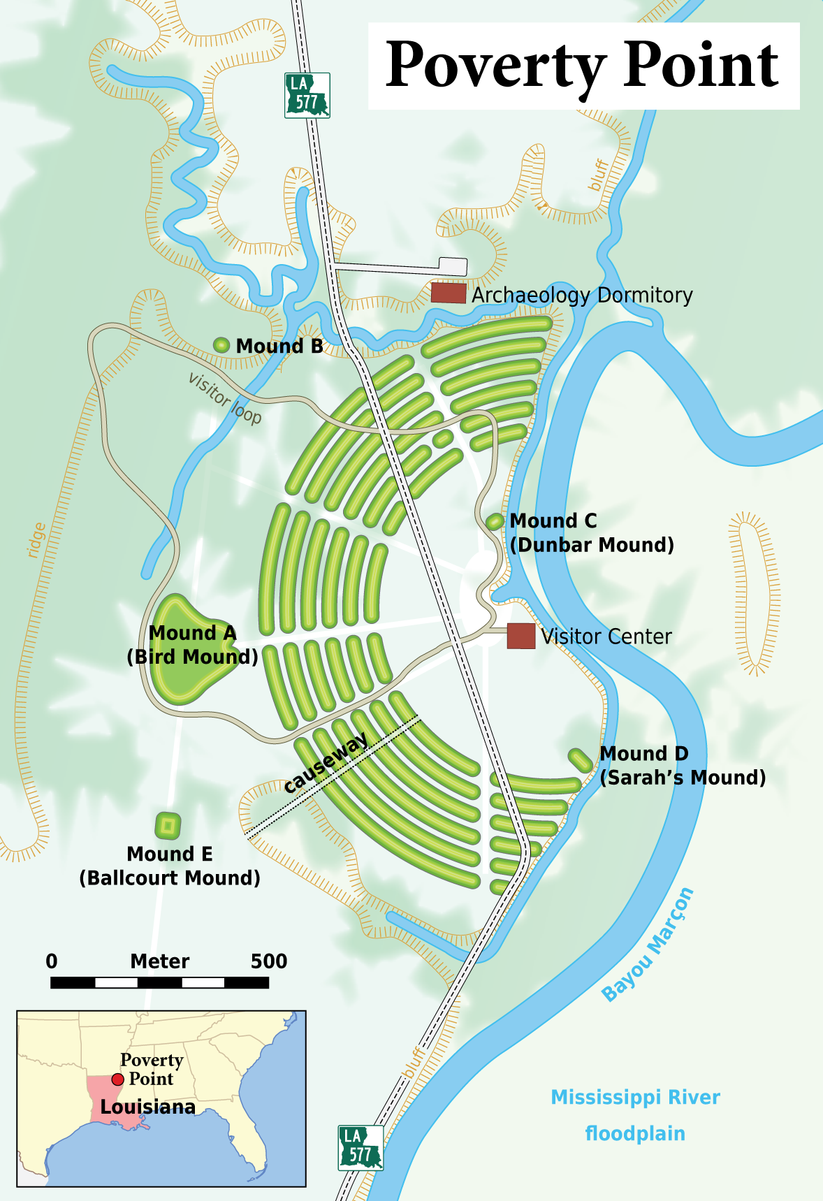 Map of the Poverty Point archaeological site